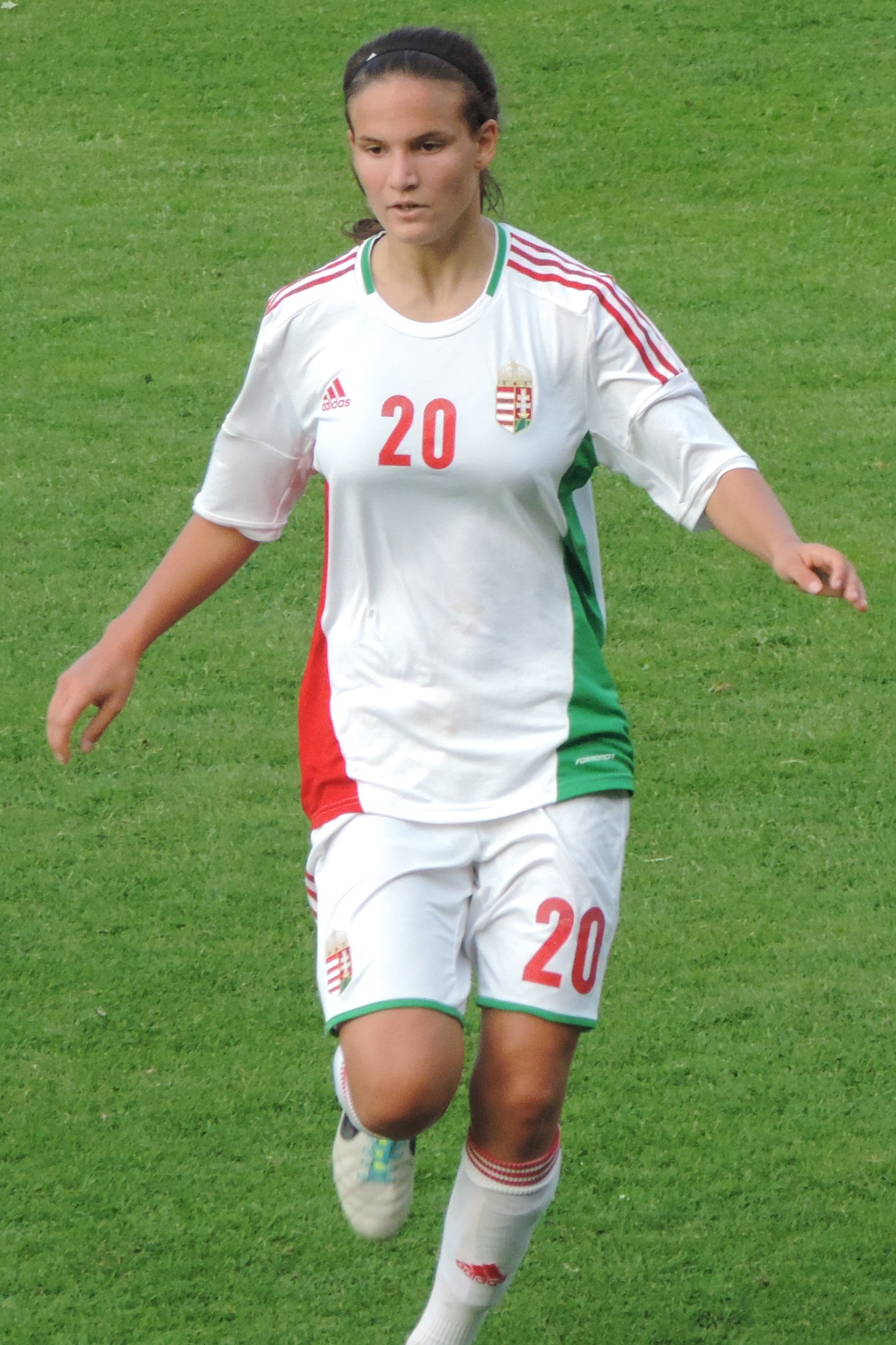 Viktória Szabó Hungarian international football player. Hungary-Denmark 0-4